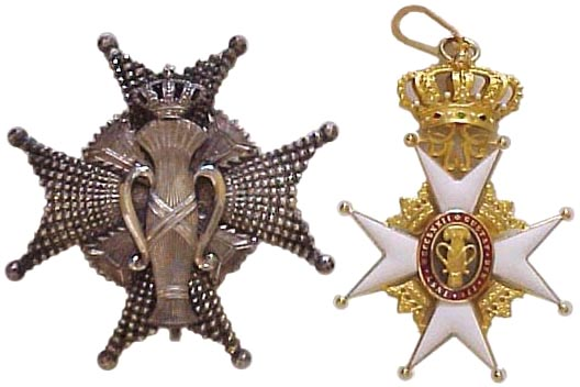 Knight Grand Cross badge and star of the order